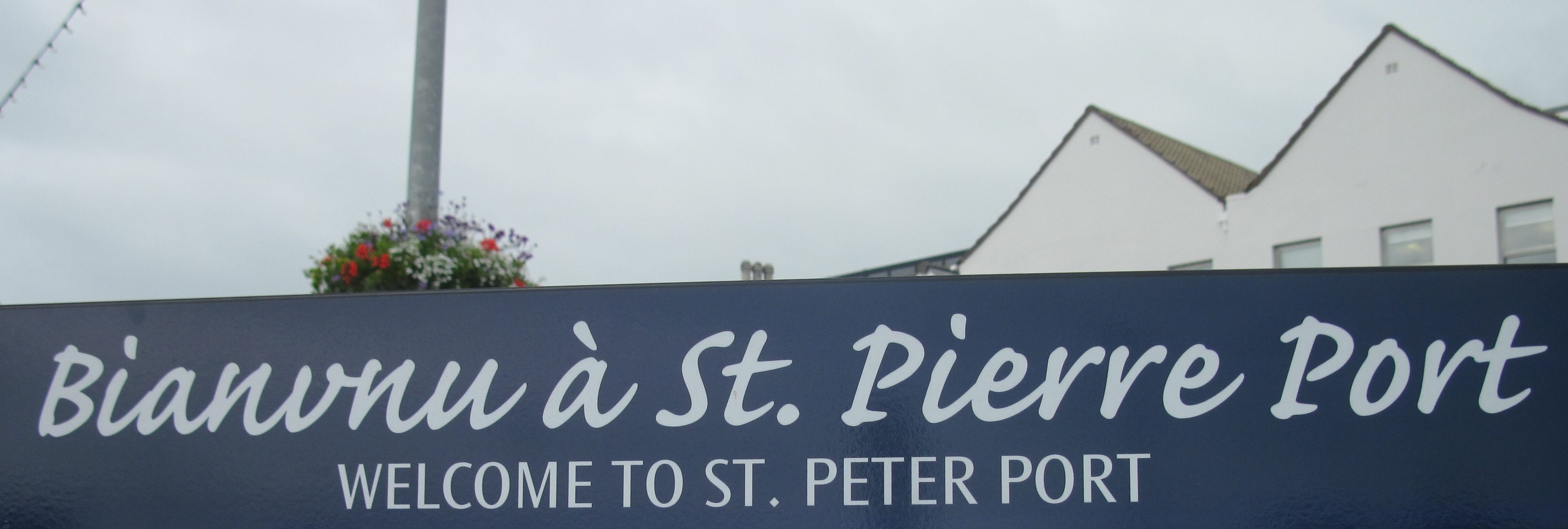 Saint Peter Port, Guernsey Nrf: Saint Pierre Port (Guernési)